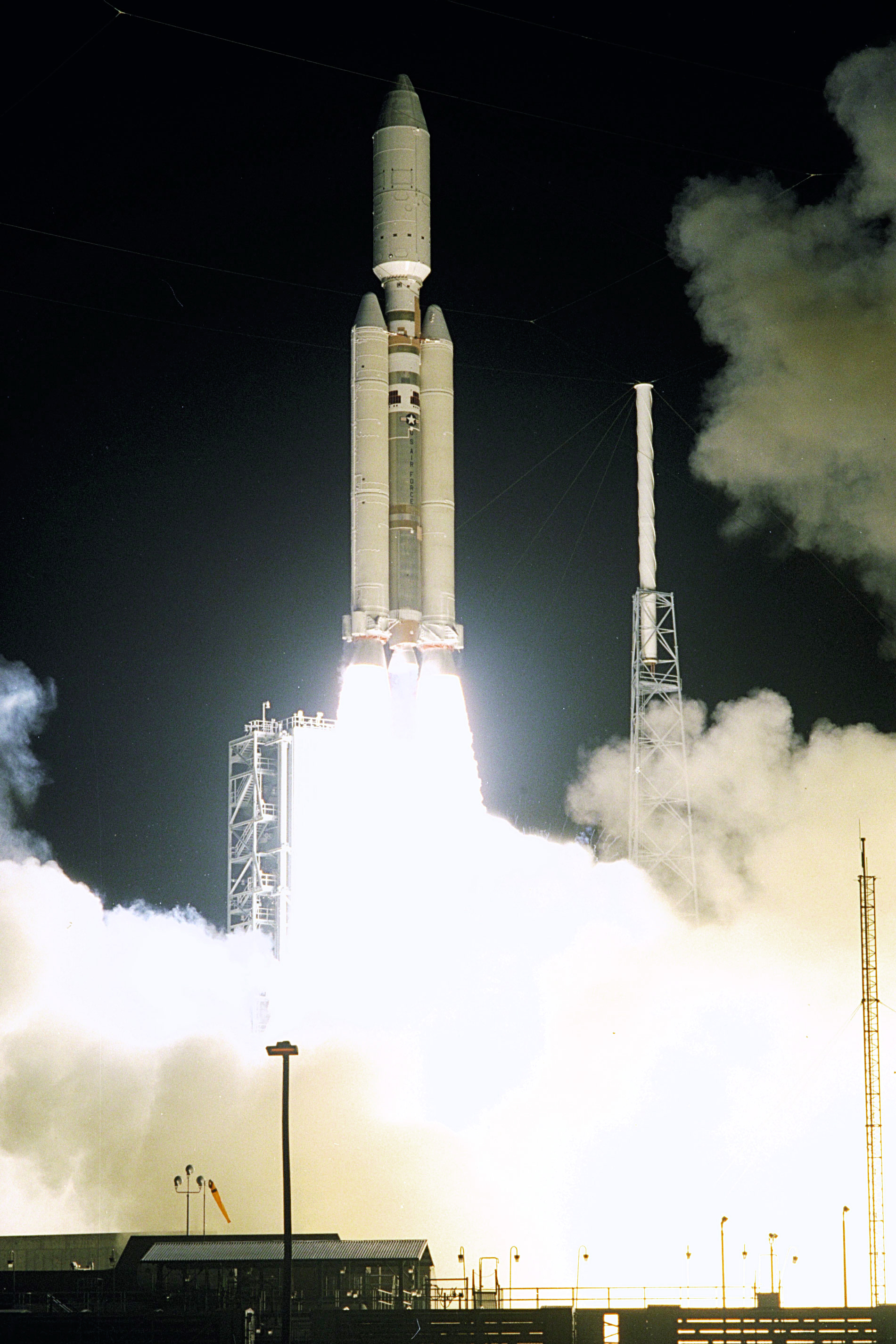 A seven-year journey to the ringed planet Saturn begins with the liftoff of a Titan IVB/Centaur carrying the Cassini orbiter and its attached Huygens probe. Launch occurred at 4:43 a.m. EDT, October 15, 1997 from Launch Complex 40 on Cape Canaveral Air Station. After a 2.2-billion mile journey that will include two swing-bys of Venus and one of Earth to gain additional velocity, the two-storey tall spacecraft will arrive at Saturn in July 2004. The orbiter will circle the planet for four years, its complement of 12 scientific instruments gathering data about Saturn's atmosphere, rings and magnetosphere and conducting closeup observations of the Saturnian moons. Huygens, with a separate suite of six science instruments, will separate from Cassini to fly on a ballistic trajectory toward Titan, the only celestial body besides Earth to have an atmosphere rich in nitrogen. Scientists are eager to study further this chemical similarity in hopes of learning more about the origins of our own planet Earth. Huygens will provide the first direct sampling of Titan's atmospheric chemistry and the first detailed photographs of its surface. The Cassini mission is an international effort involving NASA, the European Space Agency (ESA) and the Italian Space Agency, Agenzia Spaziale Italiana (ASI). The Jet Propulsion Laboratory manages the U.S. contribution to the mission for NASA's Office of Space Science, Washington, DC. The major U.S. contractor is Lockheed Martin, which provided the launch vehicle and upper stage, spacecraft propulsion module and radioisotope thermoelectric generators that will provide power for the spacecraft. The Titan IV/Centaur is a U.S. Air Force launch vehicle, and launch operations were managed by the 45th Space Wing.